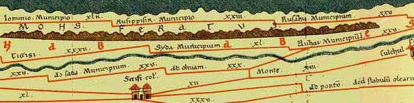 Detail of the Tabula Peutingeriana (1-4th century CE ; facsimile edition by Conradi Millieri, 1887/1888) centered on Bida/Syda Municipium (Djemâa-Saharidj) and showing Tigisi (Taourga), Sitifi Colonia (Sétif), Mons Feratus (Djurdjura Range) etc.